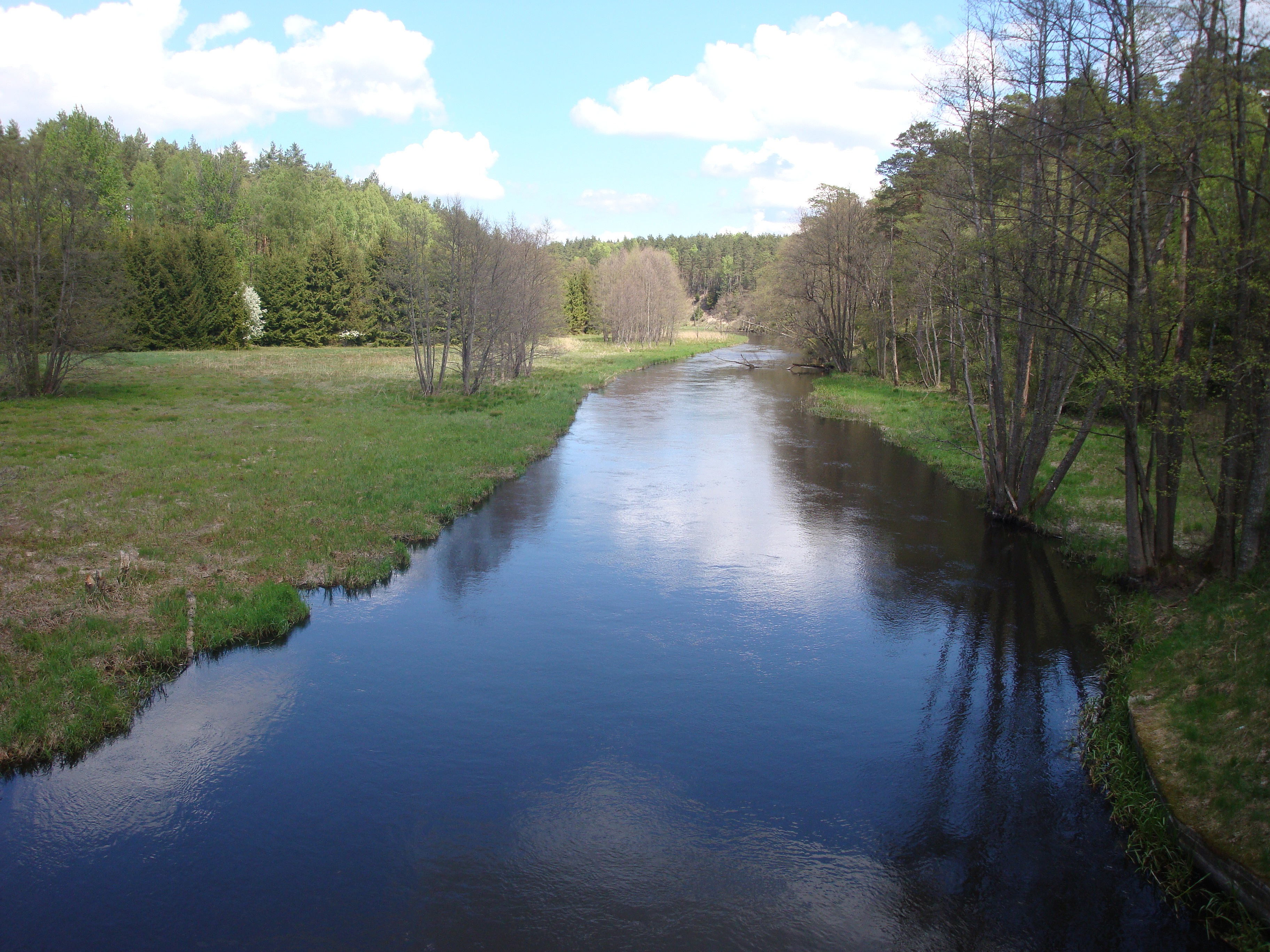 Błędno - village in Pomeranian Voivodeship, Poland. View of Wda river.